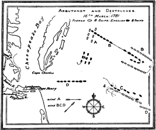 Graphic depicting ship movements in the naval Battle of Cape Henry, March 16, 1781. Positions: A: When the fleets sight each other B: First tacking maneuver C: Second tacking maneuver D: Disengagement British ships are black, French ships are white.